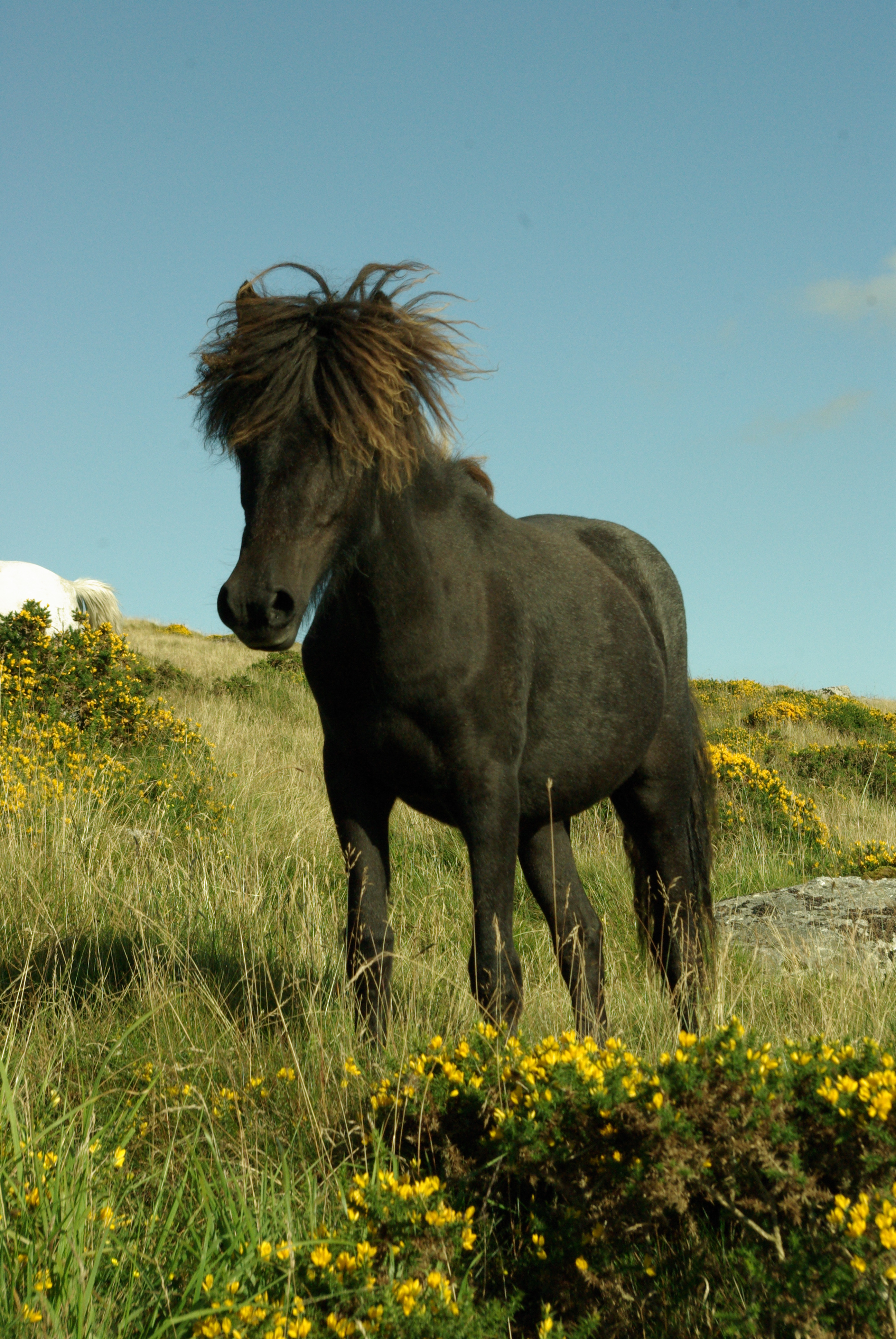 Strutting her stuff on dartmoor, looking the same as ever. ;)